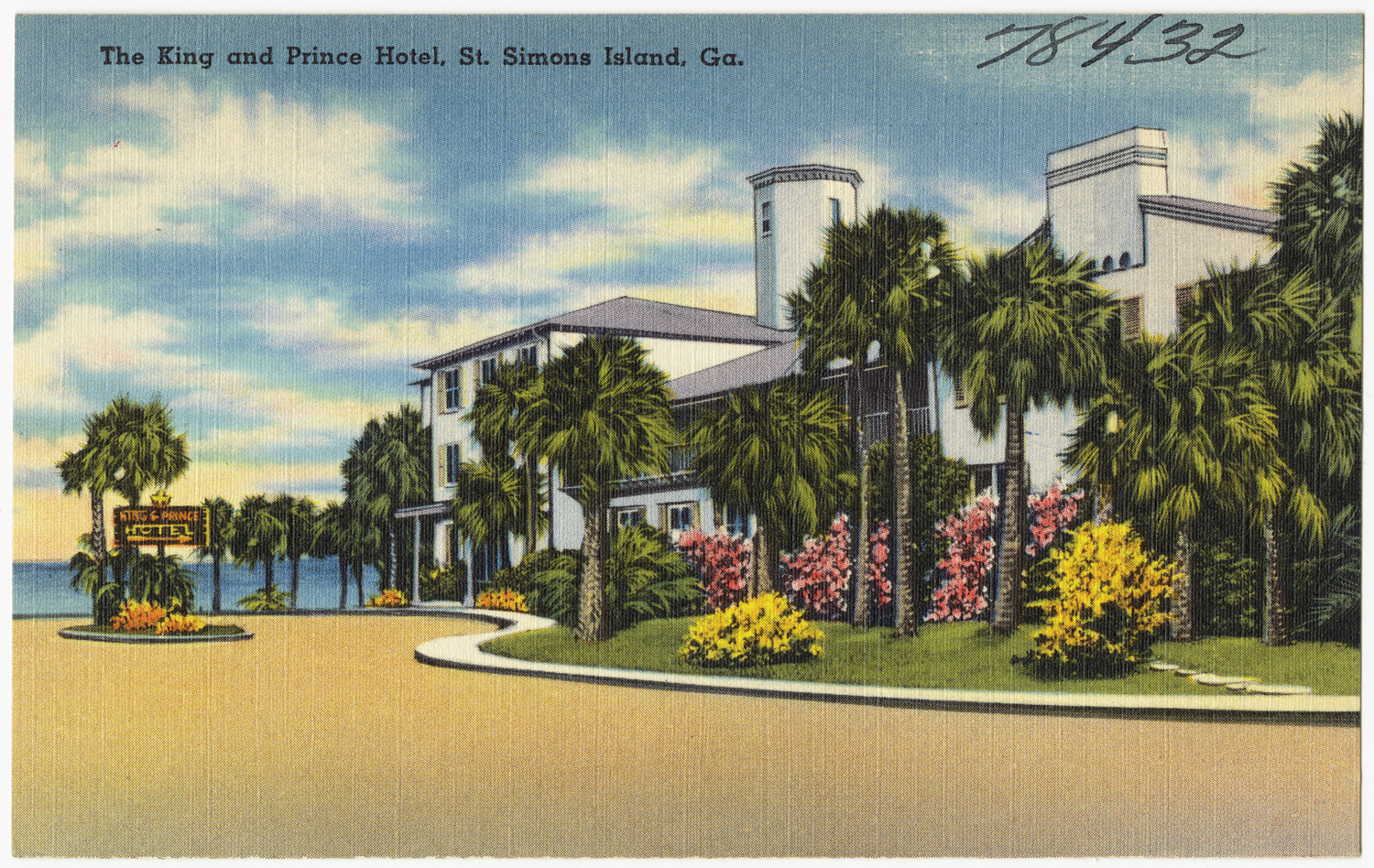 File name: 06_10_013239 Title: The King and Prince Hotel, St. Simons Island, Ga. Date issued: 1930 - 1945 (approximate) Physical description: 1 print (postcard) : linen texture, color ; 3 1/2 x 5 1/2 in. Genre: Postcards Subject: Hotels Notes: Title from item. Collection: The Tichnor Brothers Collection Location: Boston Public Library, Print Department Rights: No known restrictions